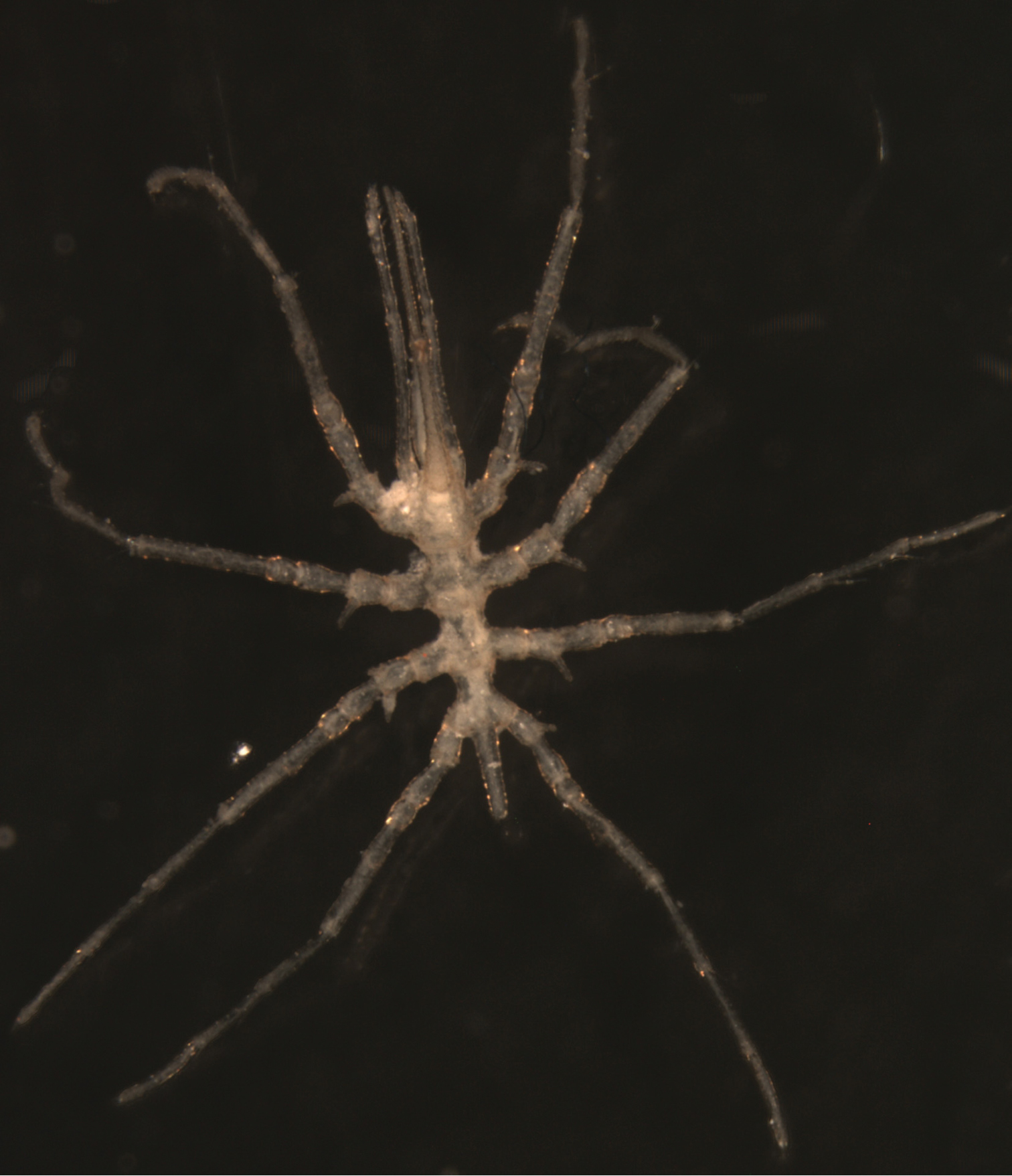 Austrodecus bamberi male holotype. Photograph from dorsal view.